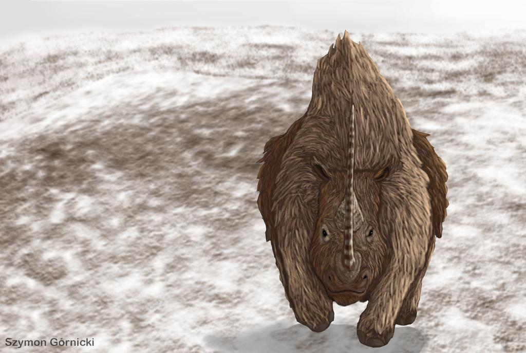 Charging woolly rhinoceros by Szymon Górnicki